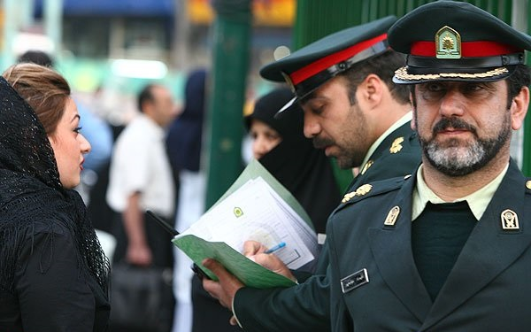 The beginning of the First vice squad of guidance patrol in Tehran - 22 April 2006. for more, Fars archive (in Persian)